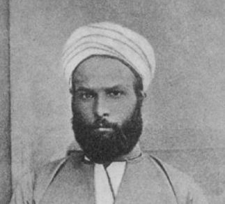 trimmed photo of Muhammad Abduh in public domain